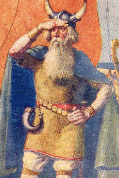 Leif Ericson on the shore of newly discovered Vinland (New Foulndland).